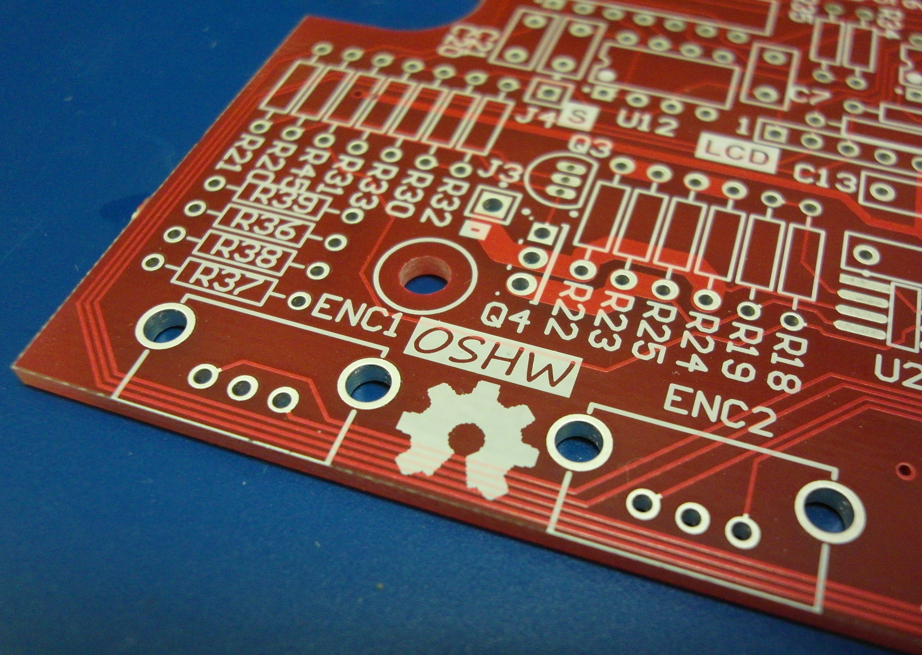 An Open Source Hardware (OSHW) logo proudly displayed on the silkscreen of a blank project PCB, the uSupply by EEVblog